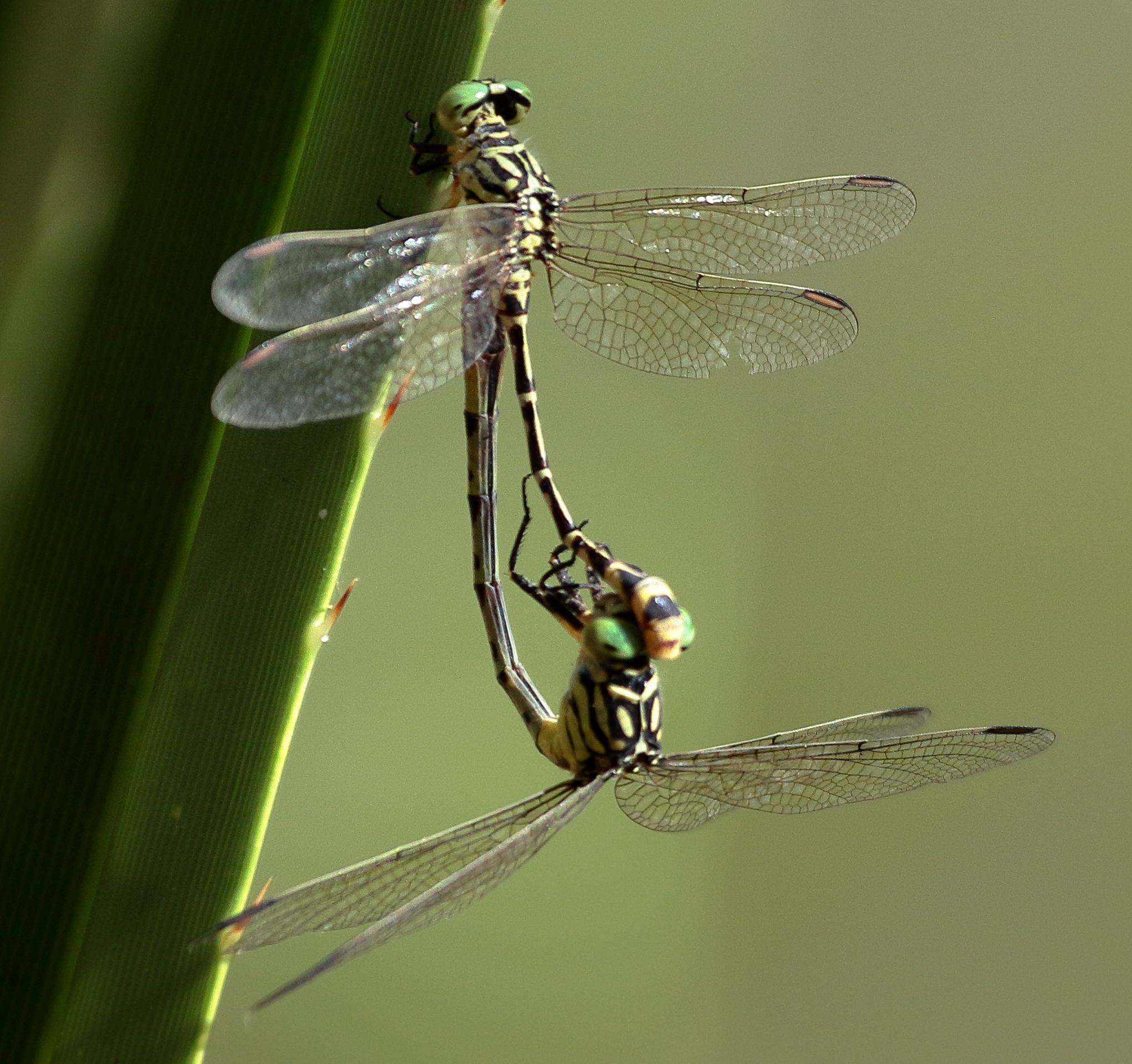 Pimple-headed hunter (Austrogomphus mjobergi) at the Gregory River, north-west Queensland. Identified with reference to Australian Museum record number K403330.